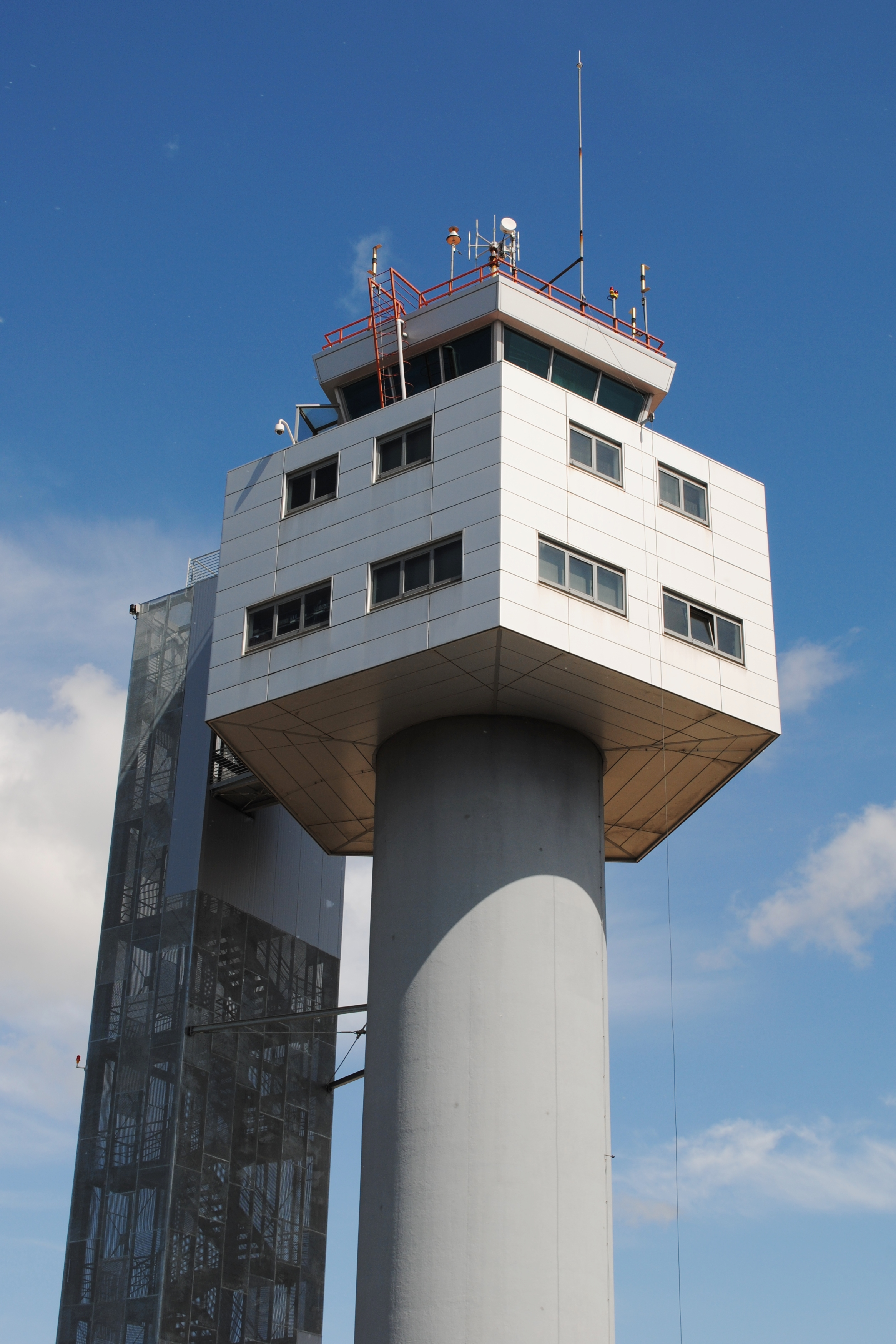 Peinador, Vigo, tower.